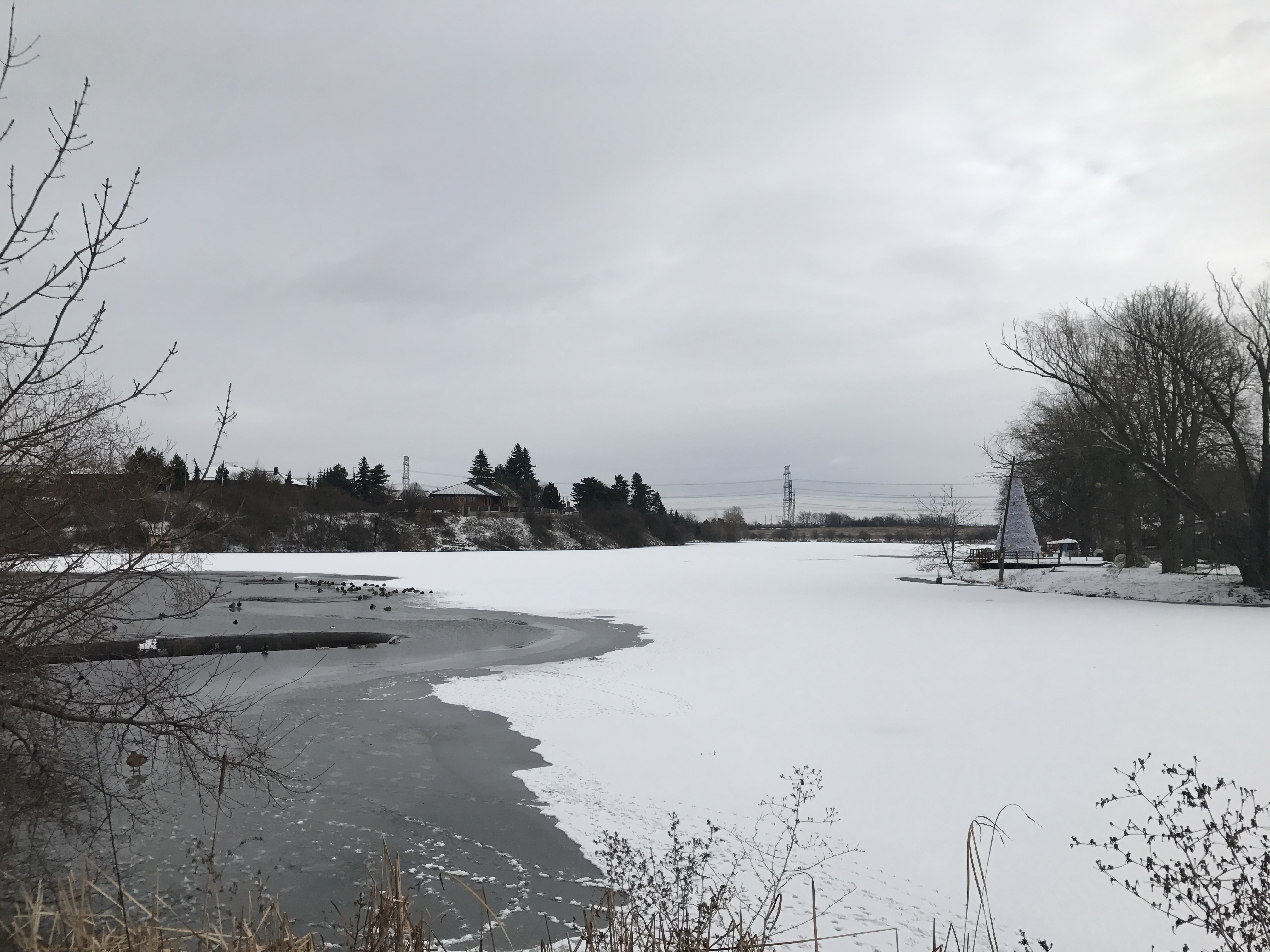 Šeberák pond in winter, Kunratice, Prague 4 (view from the dam)